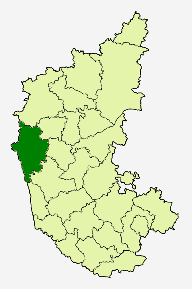 Map of Uttara Kannada District original altered from blank map of Wikimedia Commons.